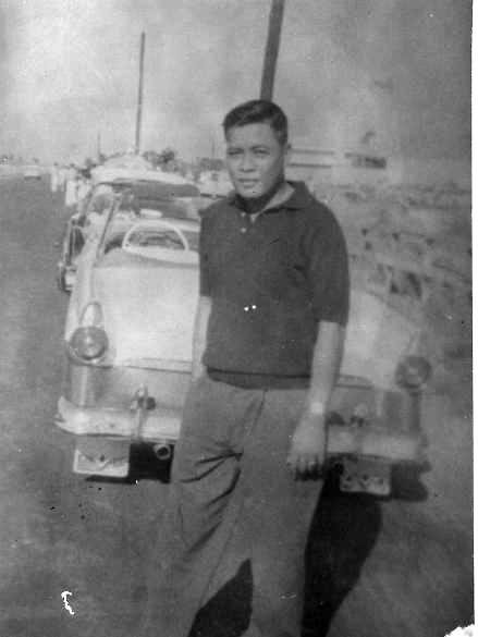 Francisco C. Ventura with the car that started his interest in car racing.